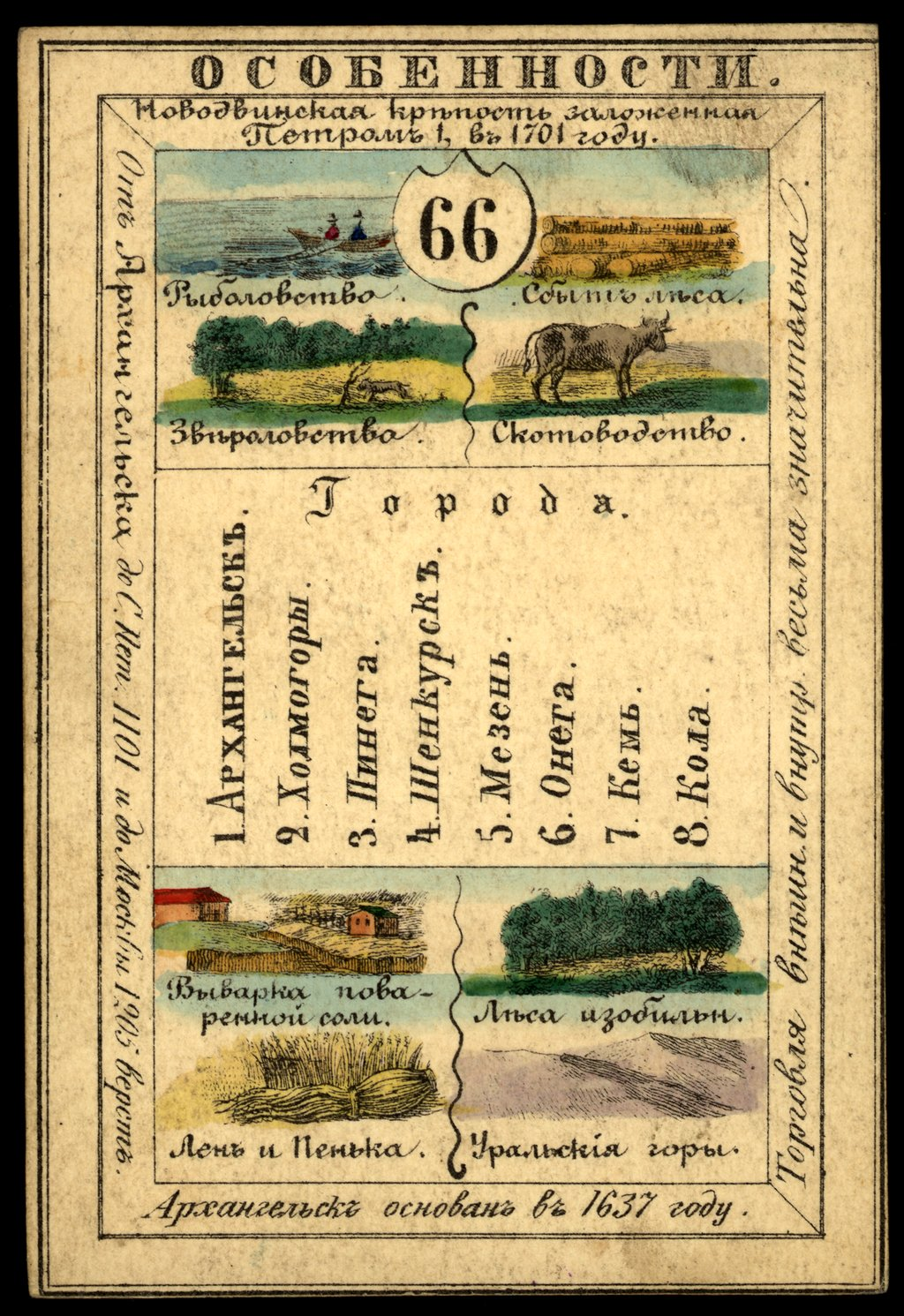 This card is one of a souvenir set of 82 illustrated cards–one for each province of the Russian Empire as it existed in 1856. Each card presents an overview of a particular province’s culture, history, economy, and geography. The front of the card depicts such distinguishing features as rivers, mountains, major cities, and chief industries. The back of each card contains a map of the province, the provincial seal, information about the population, and the local costume of the inhabitants.